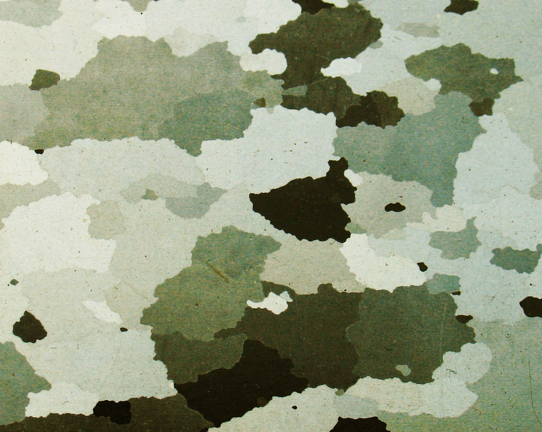 Grain-oriented electrical steel without coating showing the polycrystalline structure. The photo is taken with a regular digital camera. The size of the image is 6.0 x 4.8 cm.